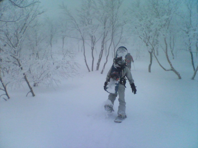 Backcountry